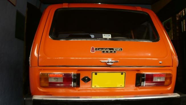 lada niva off road 4x4 model 1979 colombia